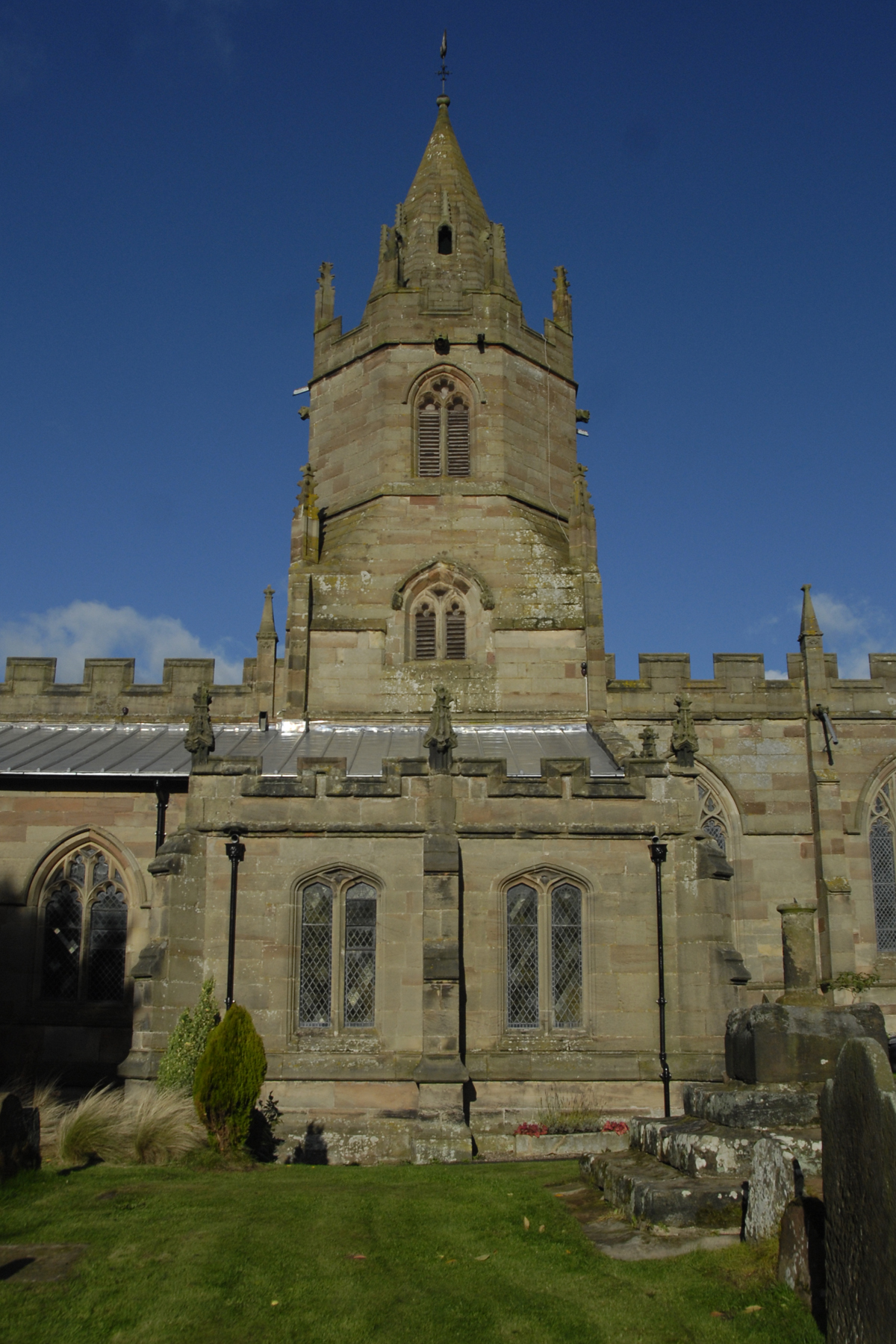 Crossing tower, spire and Vernon Chapel of St Bartholomew's parish church, Tong, Shropshire, seen from the south